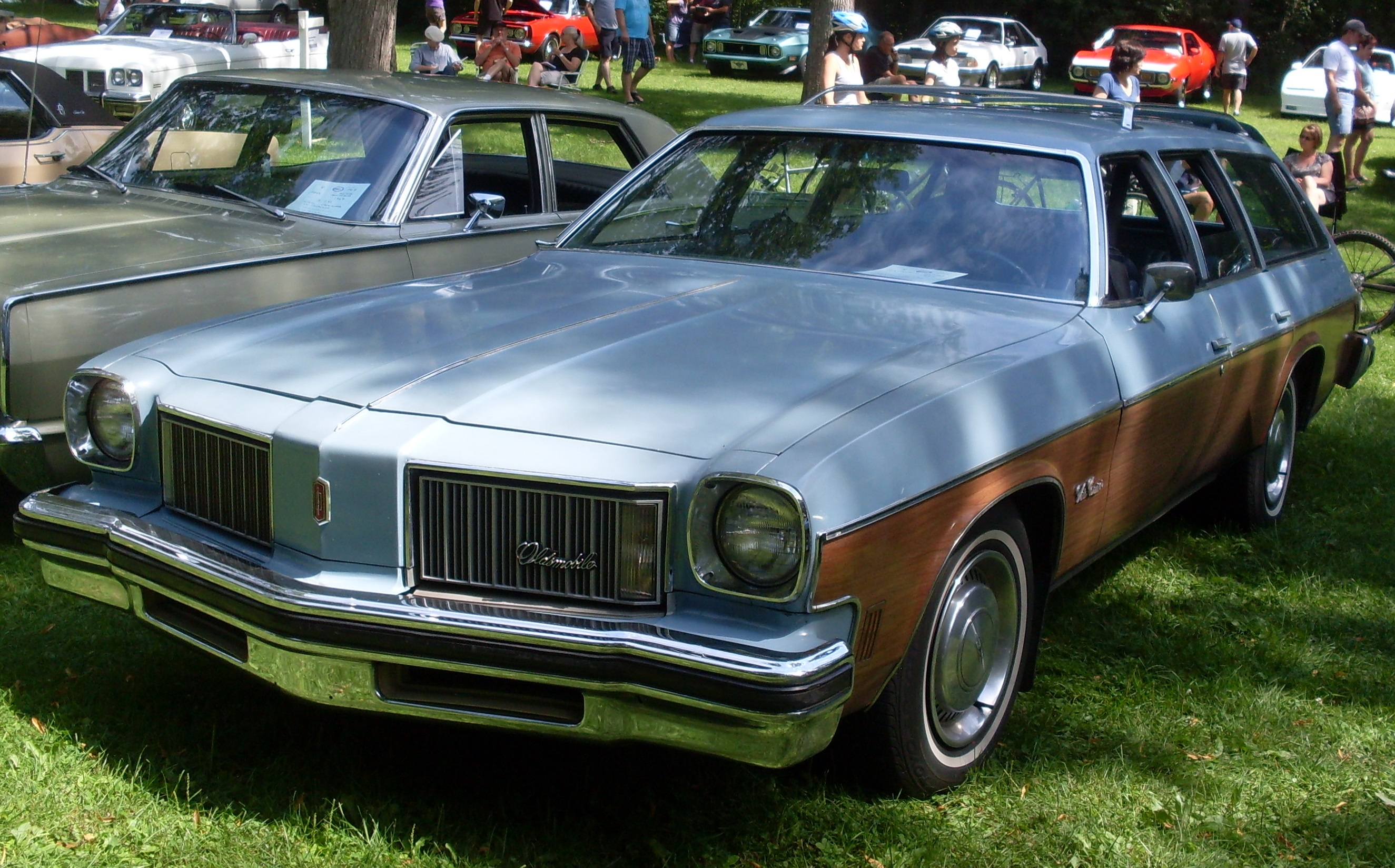 1975 Oldsmobile Vista Cruiser photographed in Beaconsfield, Quebec, Canada at Auto classique VAQ Beacosnfield 2013.